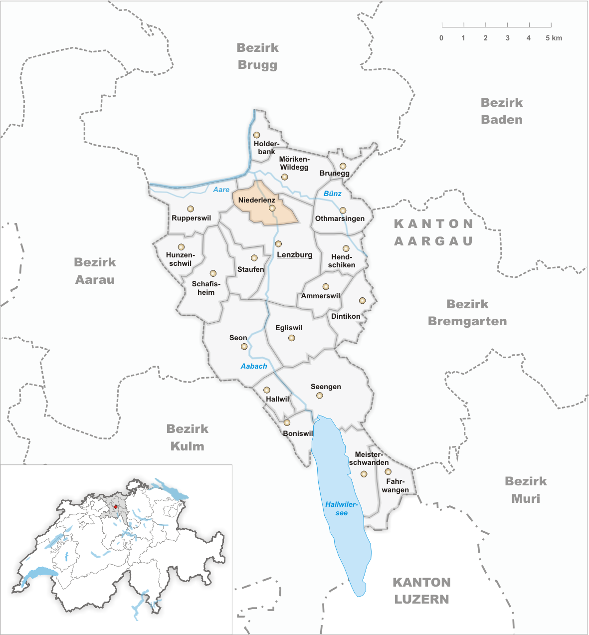 Municipality Niederlenz